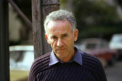 Photograph